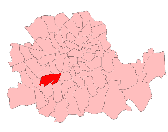 A map of Battersea North in the London County Council area from 1918 to 1949.